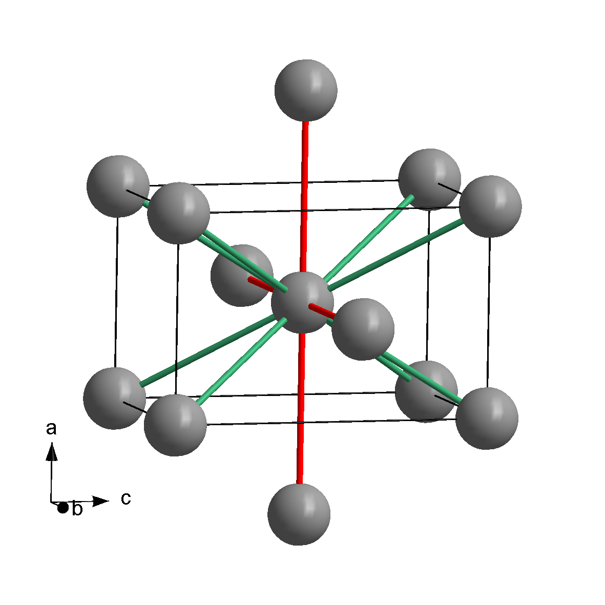 Crystal structure of indium: unit cell.